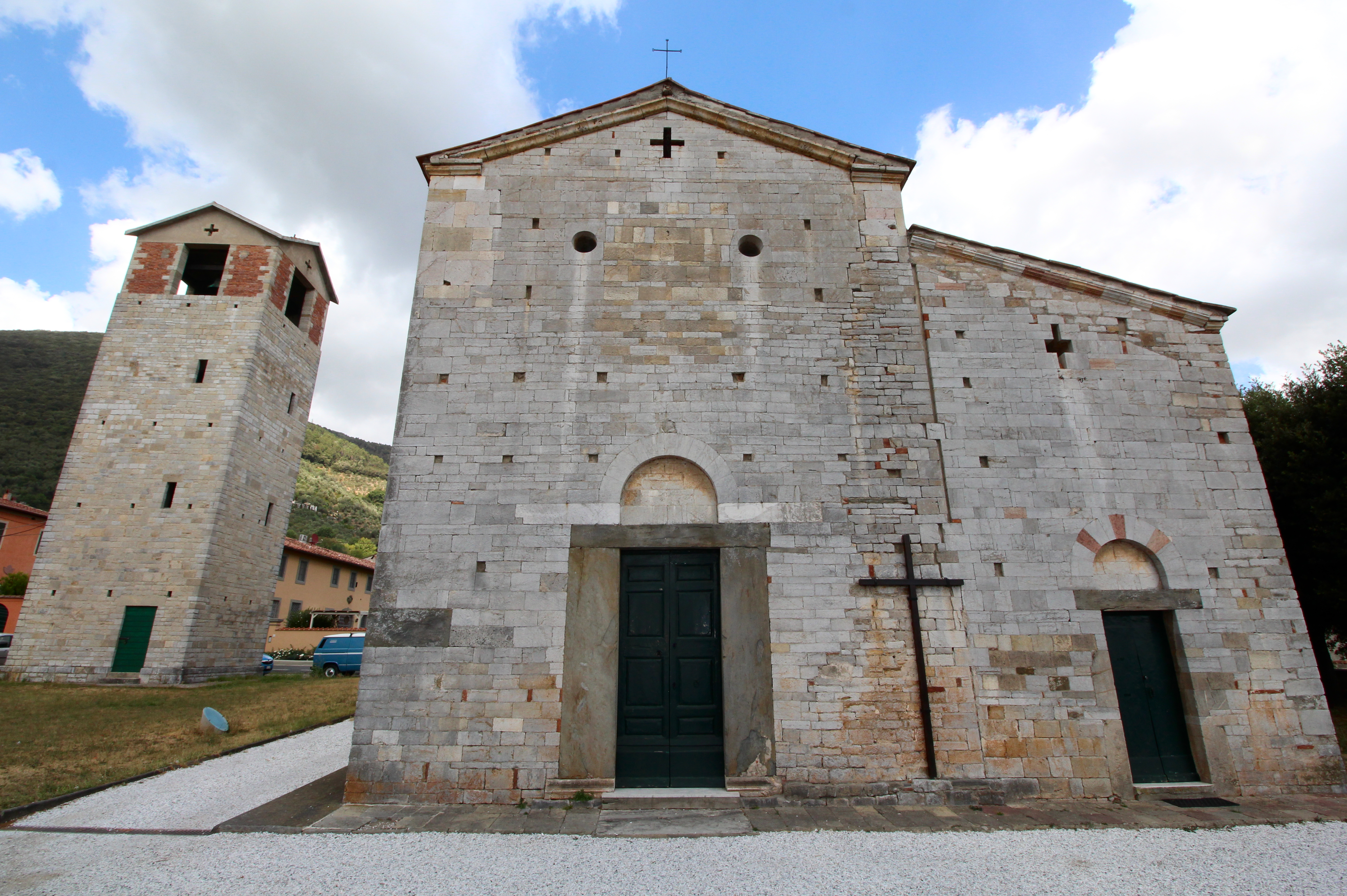 Church Santa Maria e San Giovanni Battista, Pugnano, hamlet of San Giuliano Terme, Province of Pisa, Tuscany, Italy